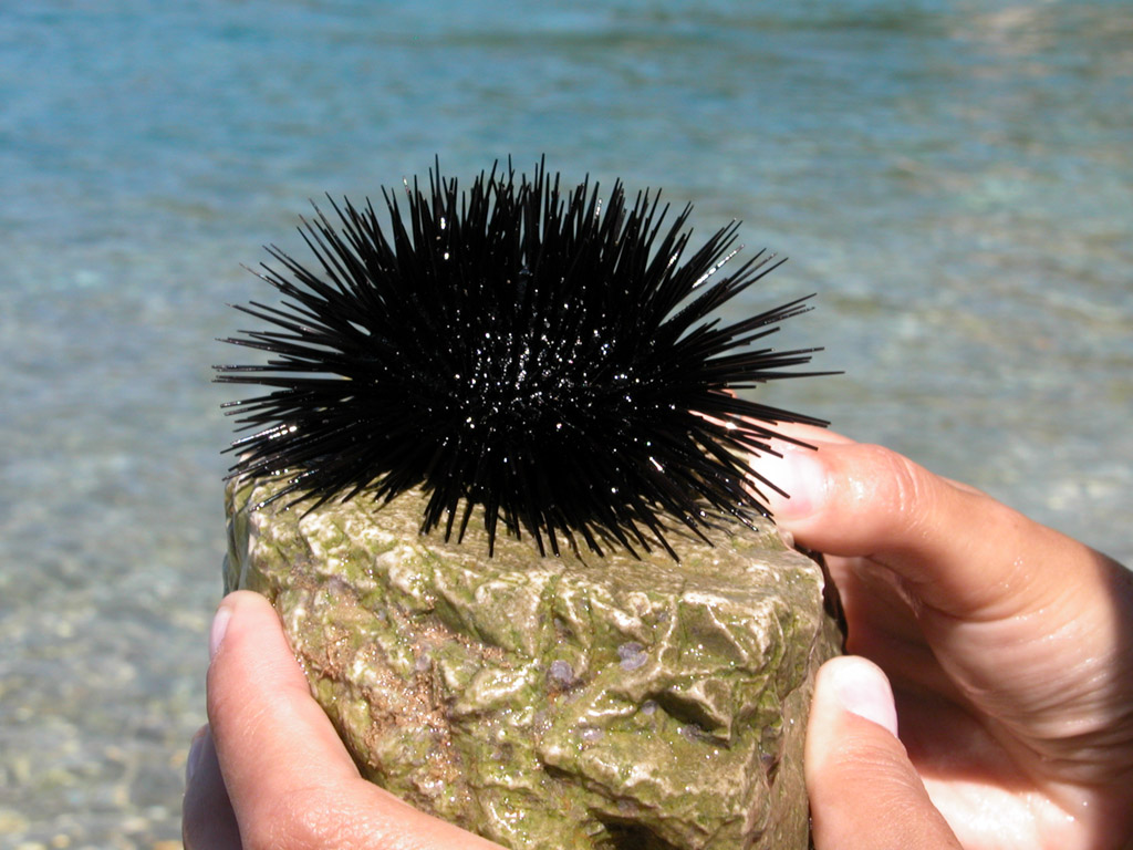 Black sea urchin (Arbacia lixula) seen in Croatia.